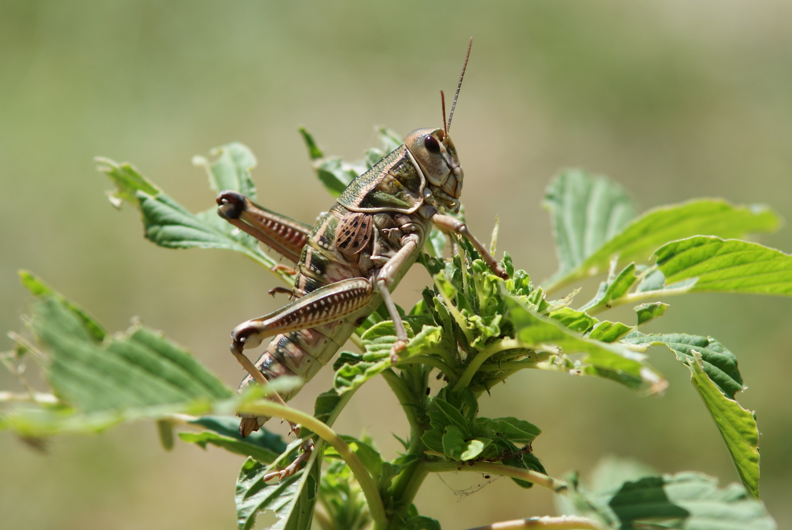 A grasshopper (Brachystola magna shown) feeding on a plant. On the central and southern Great Plains, individuals reach their largest size, and are more often (especially females) predominantly green. In the Southwest they tend to be smaller, more varied in coloration, but most often predominantly brown.